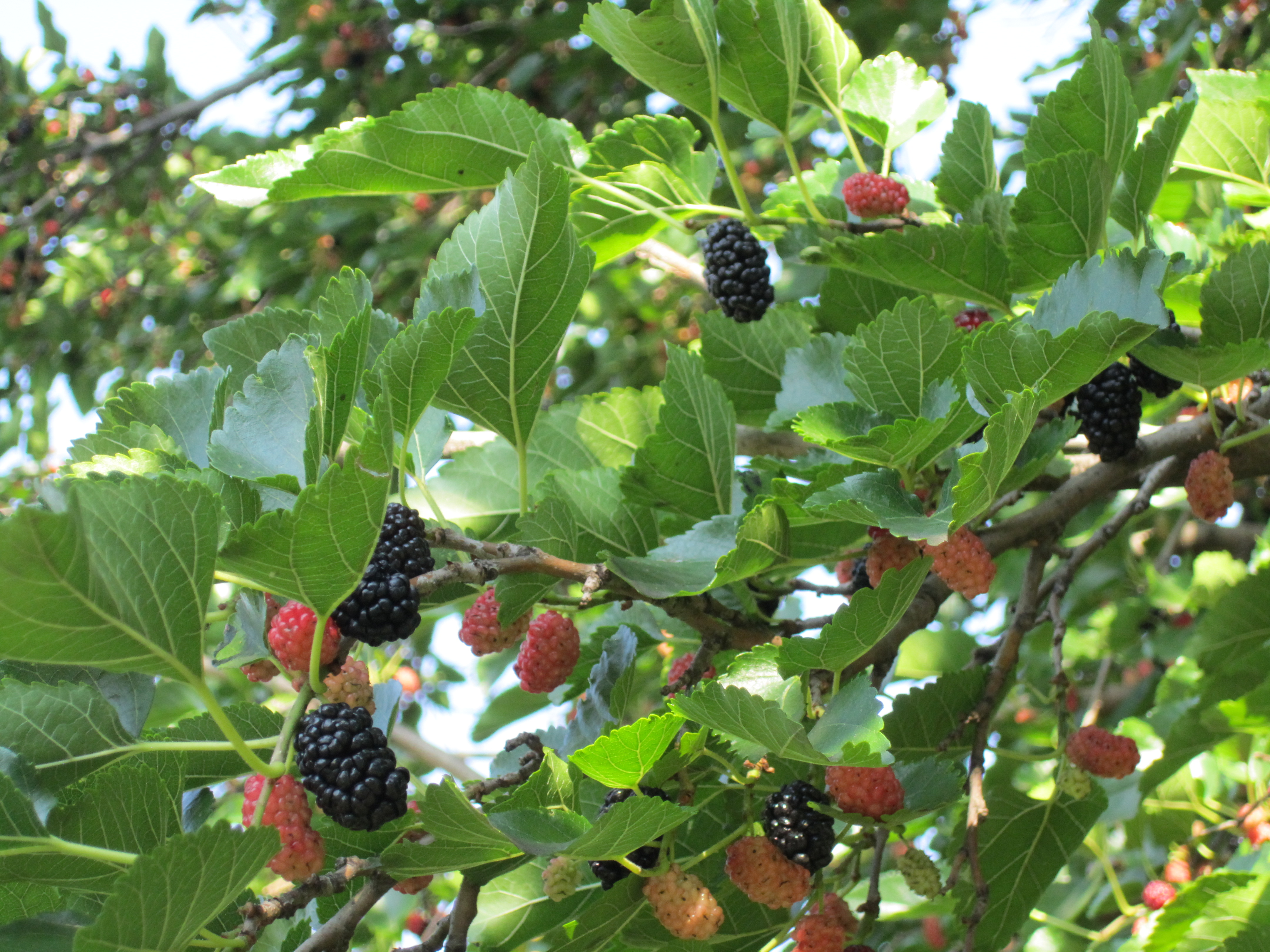 Plant